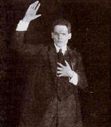 Still from the American drama film Rasputin, the Black Monk (1917) with Henry Hull, on page 47 of the September 29, 1917 Exhibitors Herald.